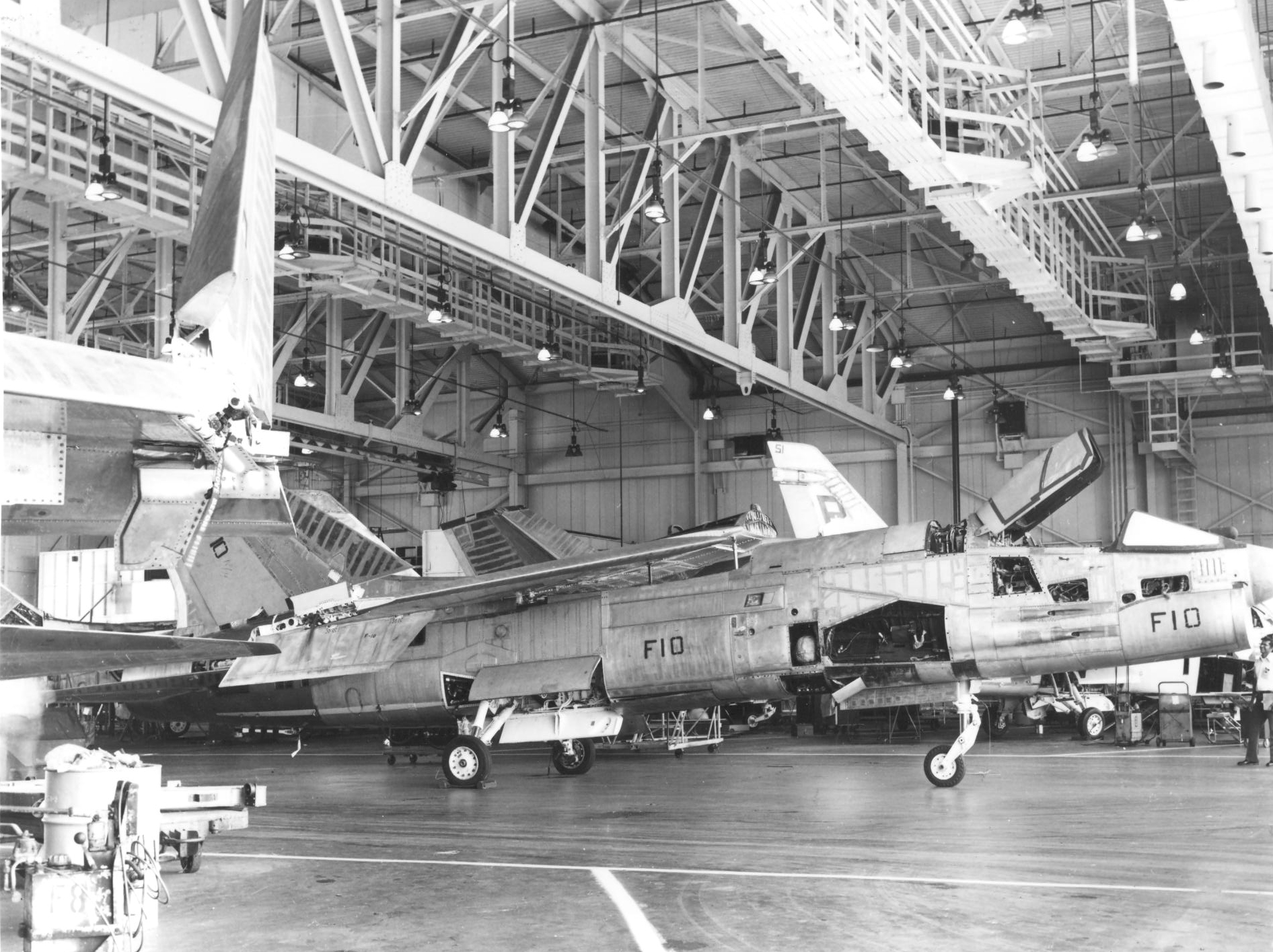 A Vought F-8 Crusader being assembled at Vought Aircraft, Dallas, Texas (USA).